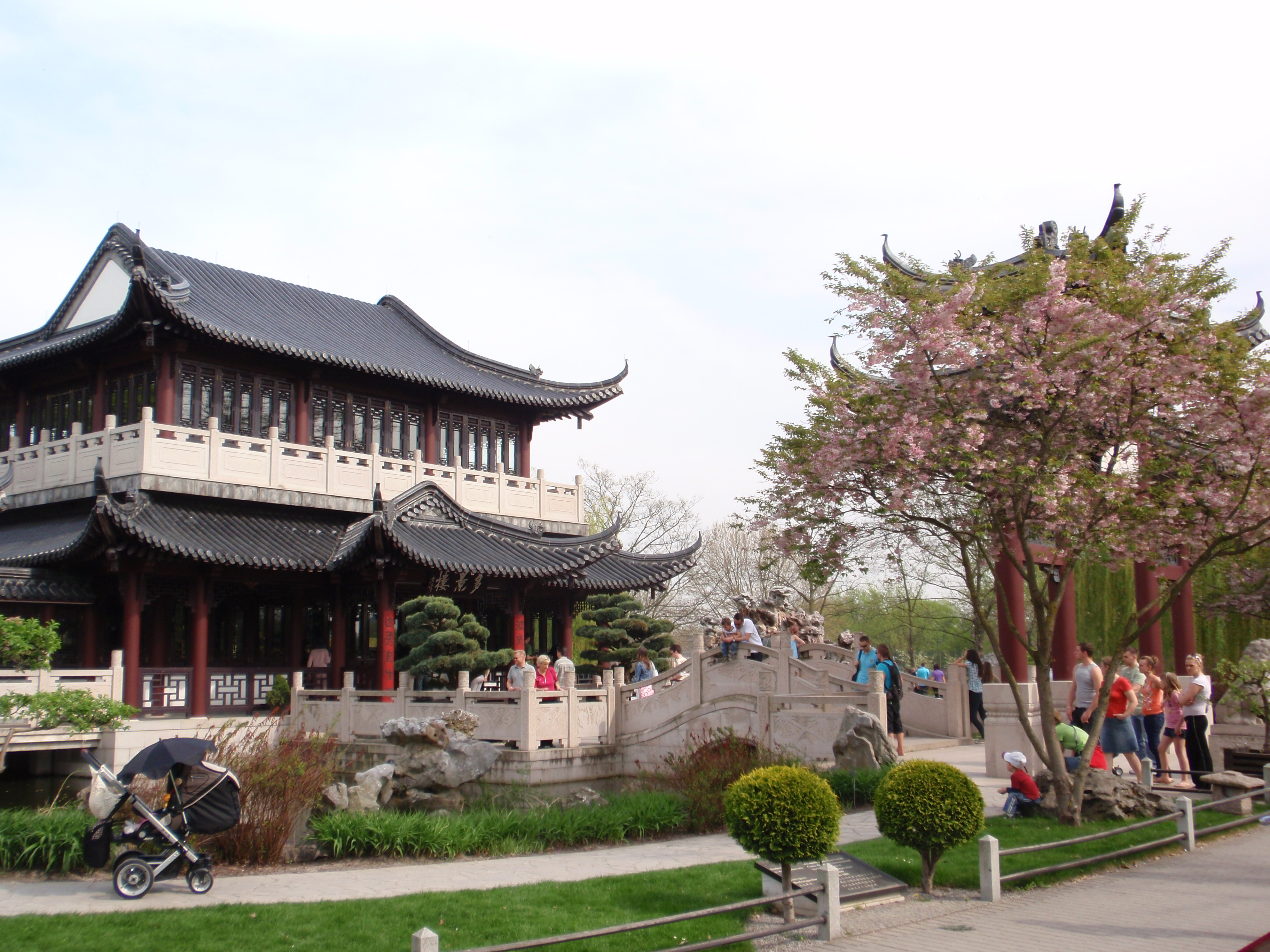 The chinese tea-pavillion "Duojingyuan" ("garden of many views") in the Luisenpark Mannheim (Germany)